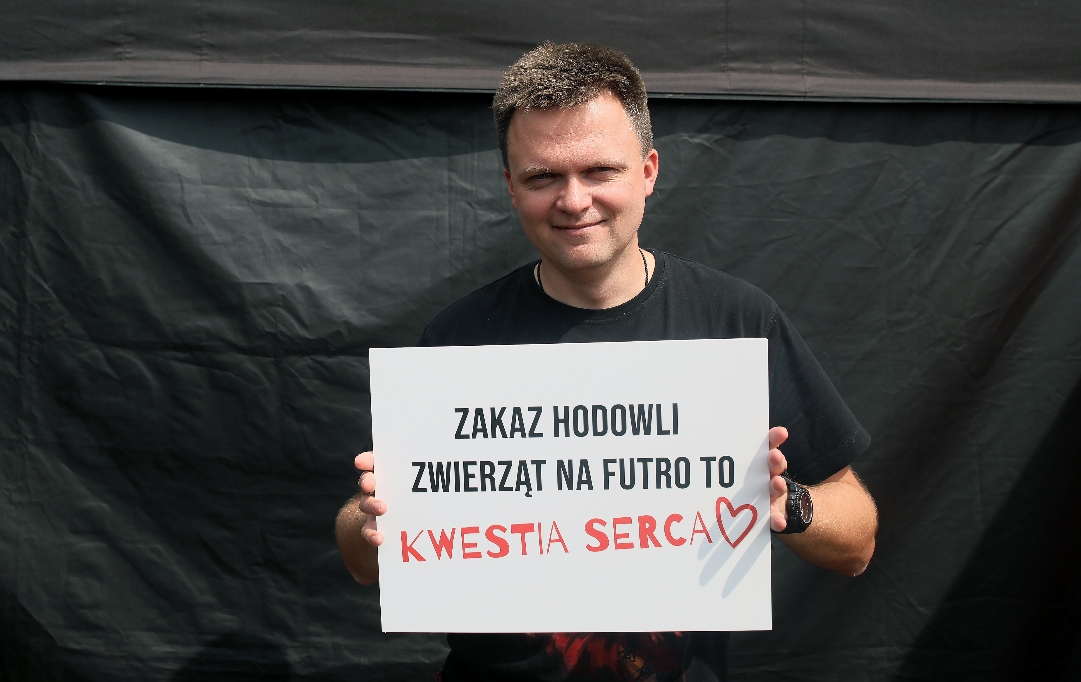 Fot:Andrew Skowron